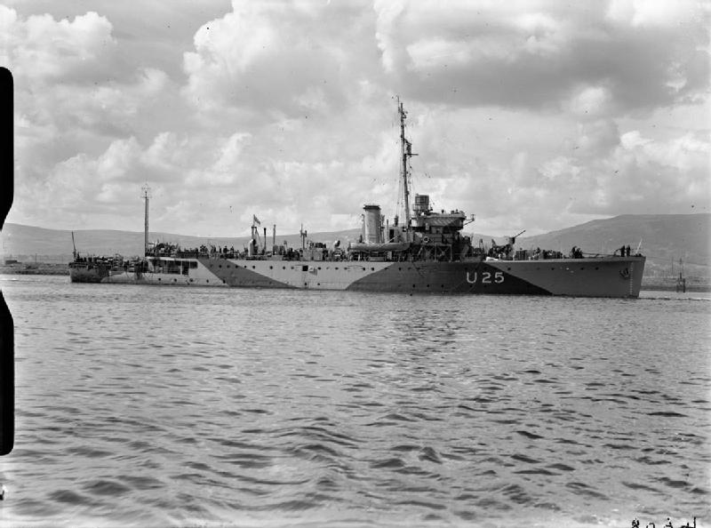 Photograph of British sloop HMS Scarborough, stationary, in coastal waters.